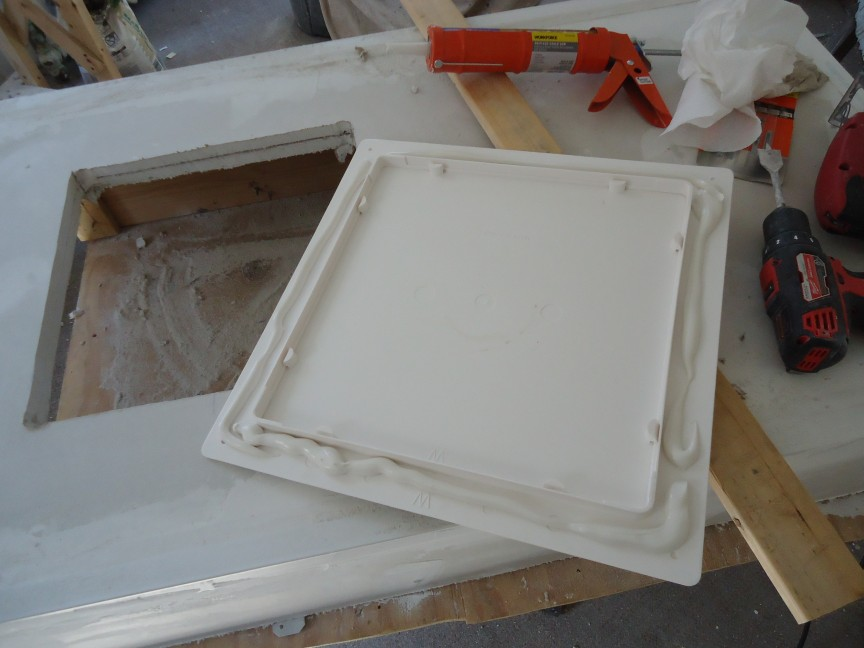 I built a rectangular box. Its purpose, when installed, was to hide overhead kitchen pipes. Since these pipes included two water shut-off valves (not shown), an access panel (shown) was added to the box using construction adhesive around the edges. The photo shows the access panel about to be flipped over and glued to the box. When the box was installed, if a person needed access to the shut-off valves in the kitchen ceiling, he or she can get a ladder, remove the detachable plastic panel using a screwdriver, and reach the shutoff valves without having to remove two layers of sheetrock.